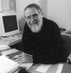 teste